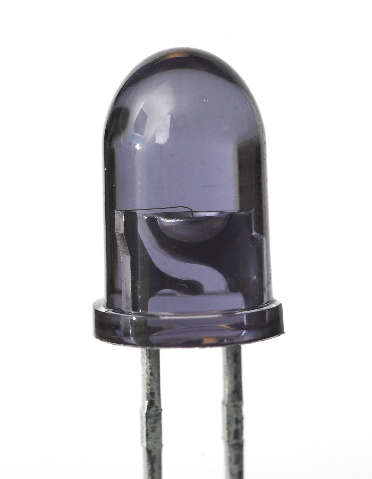 Infrared LED, 950 nm